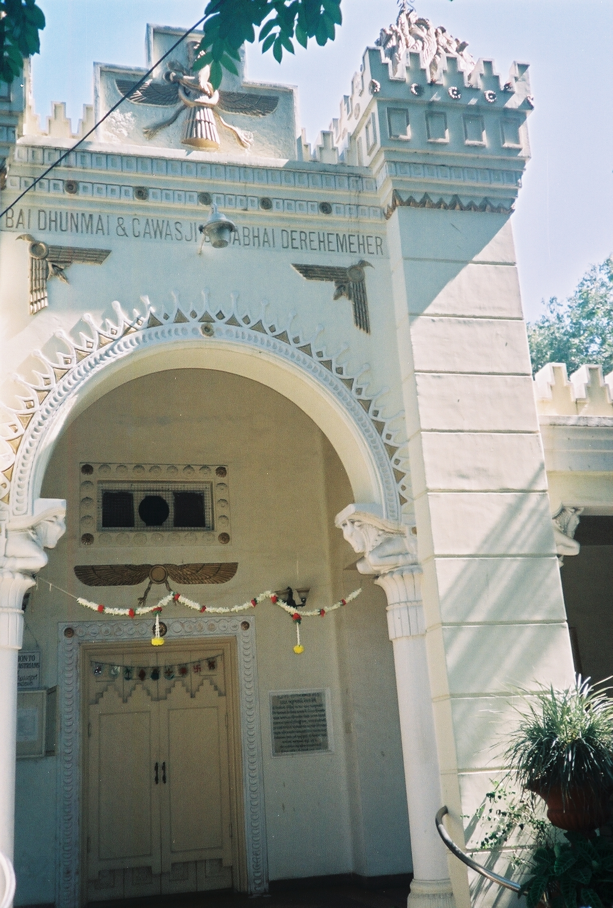 Agiari - A Zorashtrian (Parsi) temple in Bangalore